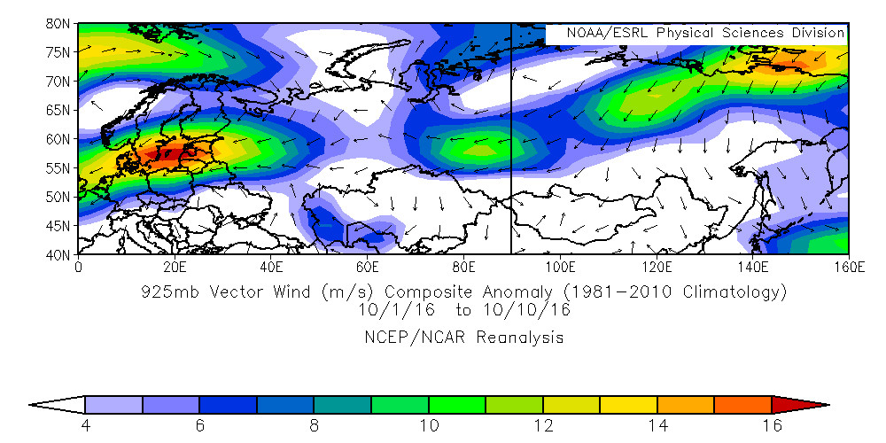 wind anomaly map of Eurasia. Created on NOAA website here from public domain source